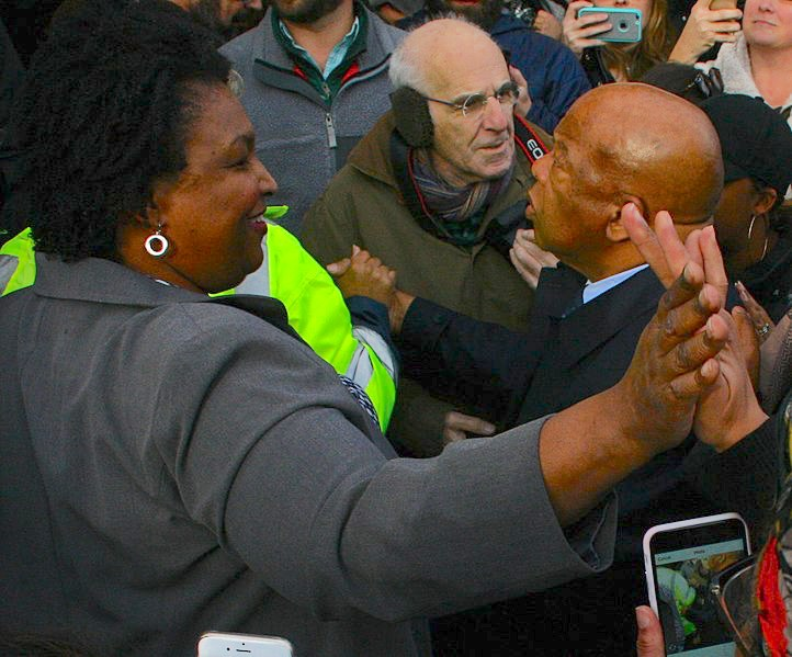 Stacey Abrams and John Lewis at the Muslim ban protest